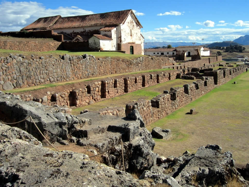 Inca ruins with a colonial church in the background at Chincero, Peru.